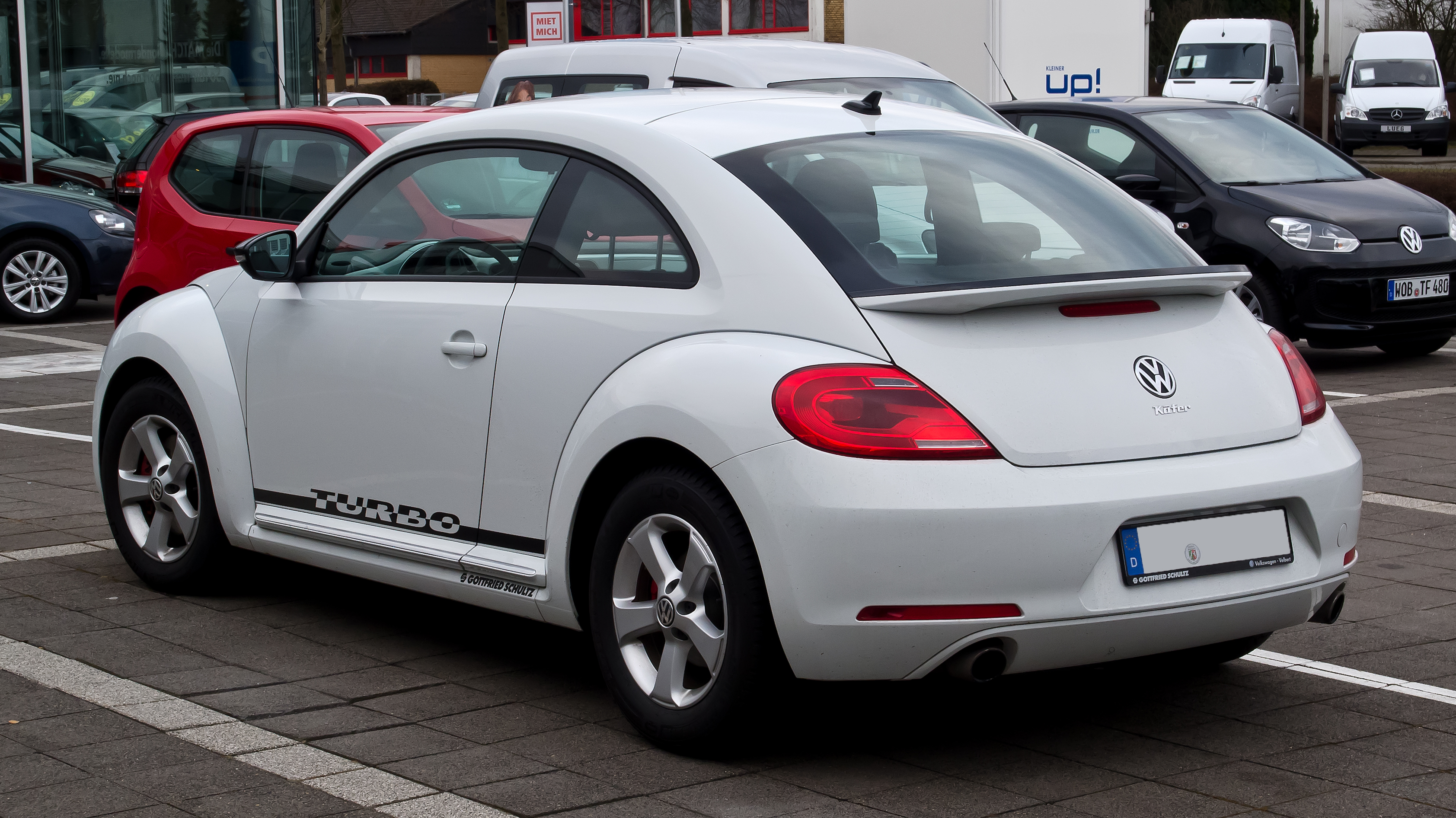 VW Beetle 2.0 TSI Sport